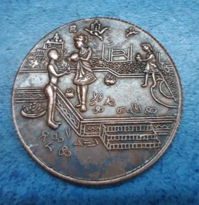 One Anna coin issued by the British Indian Government in the year 1818 on the occasion of Jain festival of Akshay Tritiya. The coin depicts Tirthankar Rishabhdev accepted sugarcane juice from king Shreyans and breaking his one year fast (Varshi Tapa).